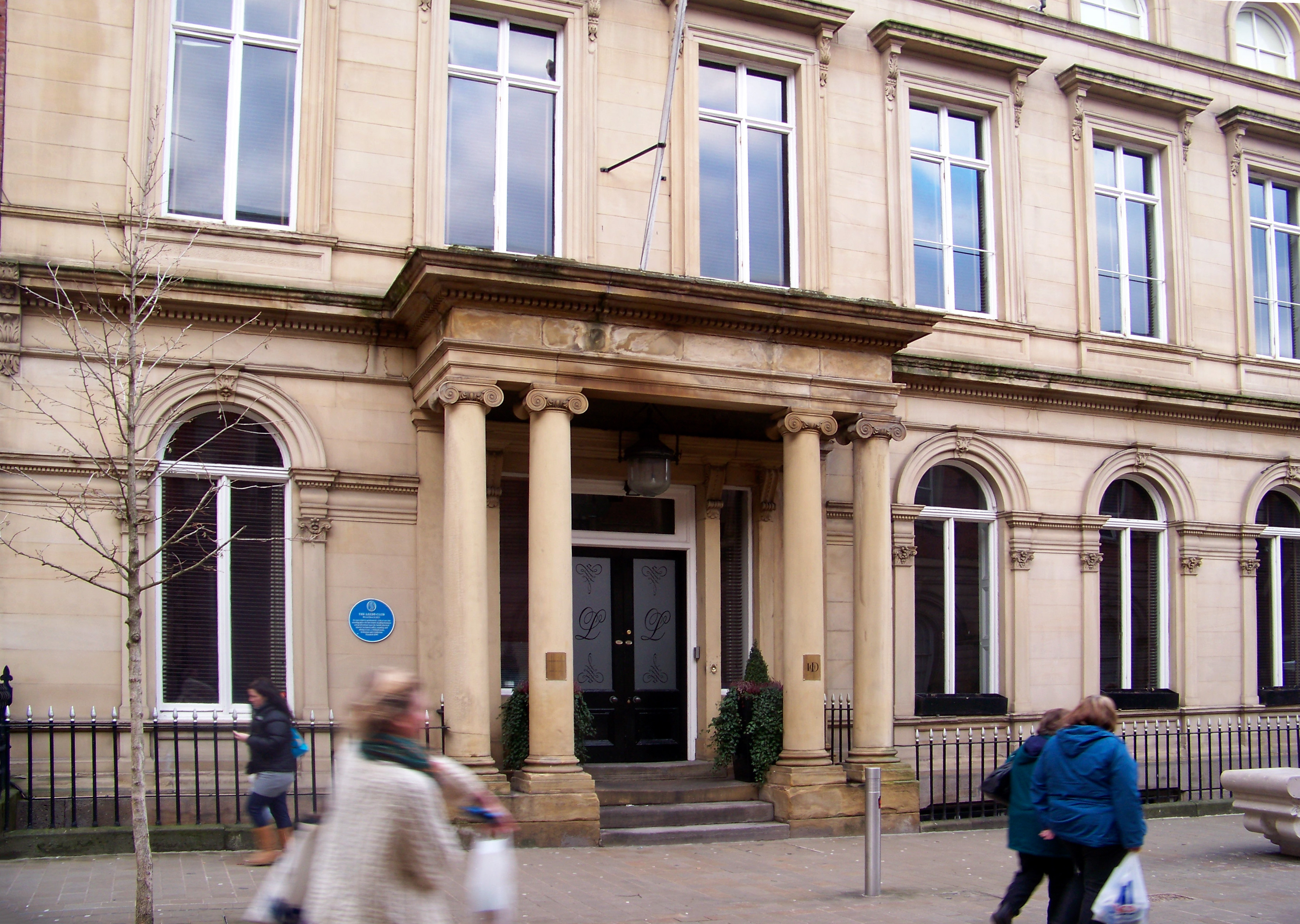 The Leeds Club on Commercial Street, Leeds, West Yorkshire. Taken on the afternoon of Saturday the 23rd of January 2010.